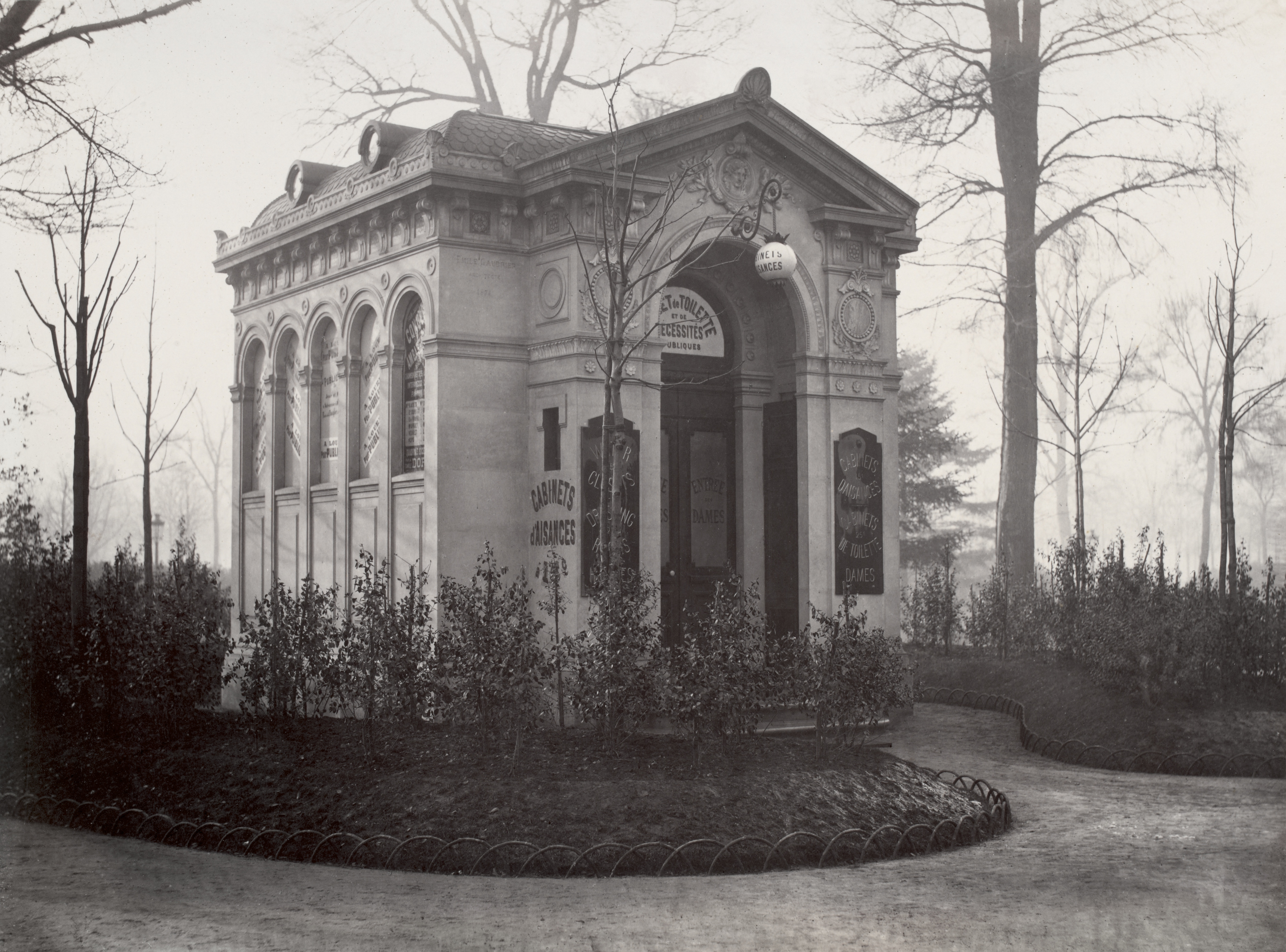 Public toilet in park with arched windows and portico, pediment at roof with woman's face in tympanum, glass panel doors, garden path and lawn in foreground.